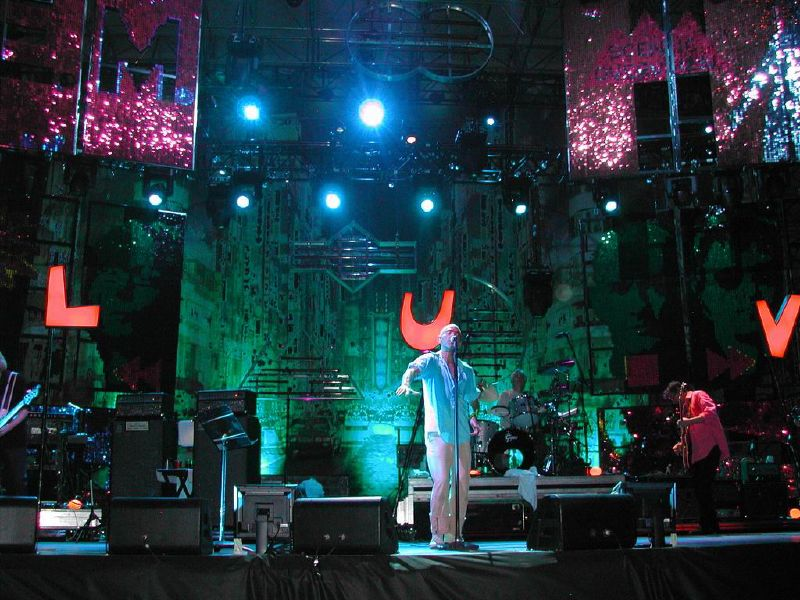 R.E.M. onstage